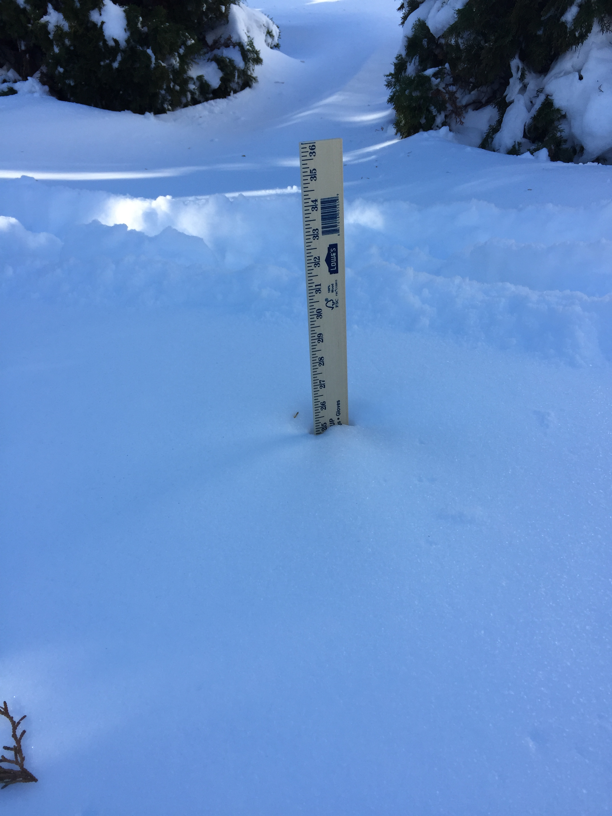 A yard stick measuring about 25 inches of snow depth in the left side of the back yard of a house along Tranquility Court in the Franklin Farm section of Oak Hill, Fairfax County, Virginia on the afternoon after the Blizzard of 2016